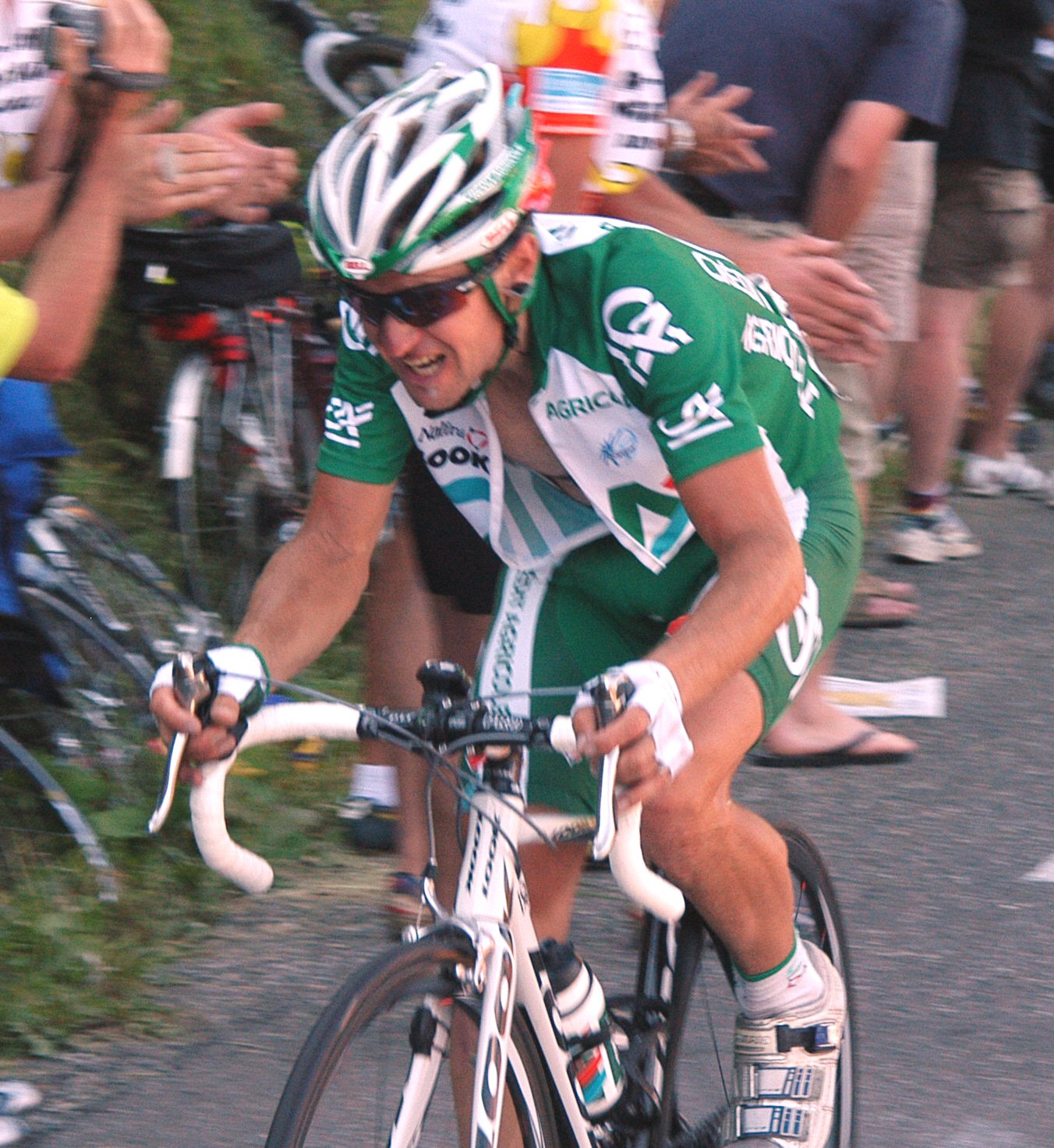 Alexandre Botcharov at stage 7 of the Tour de France 2007 on the Col de la Colombière.